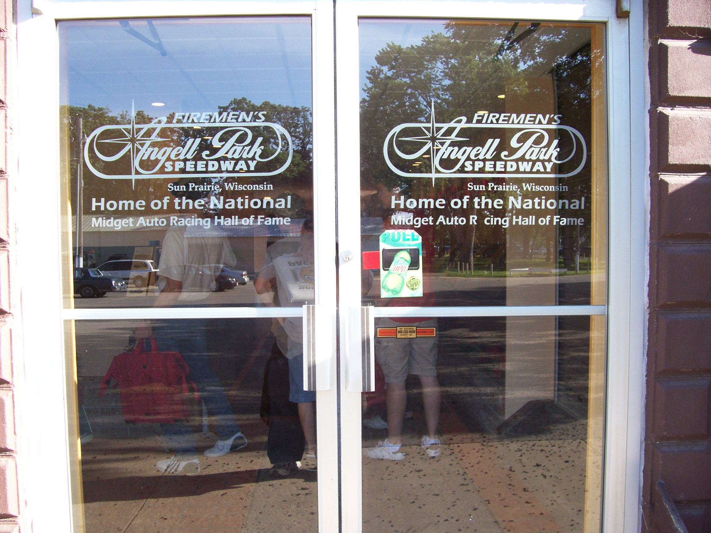 The entrance for the National Midget Auto Racing Hall of Fame in Sun Prairie, Wisconsin, USA.National Midget Auto Racing Hall of Fame/Angell Park 06.10.07